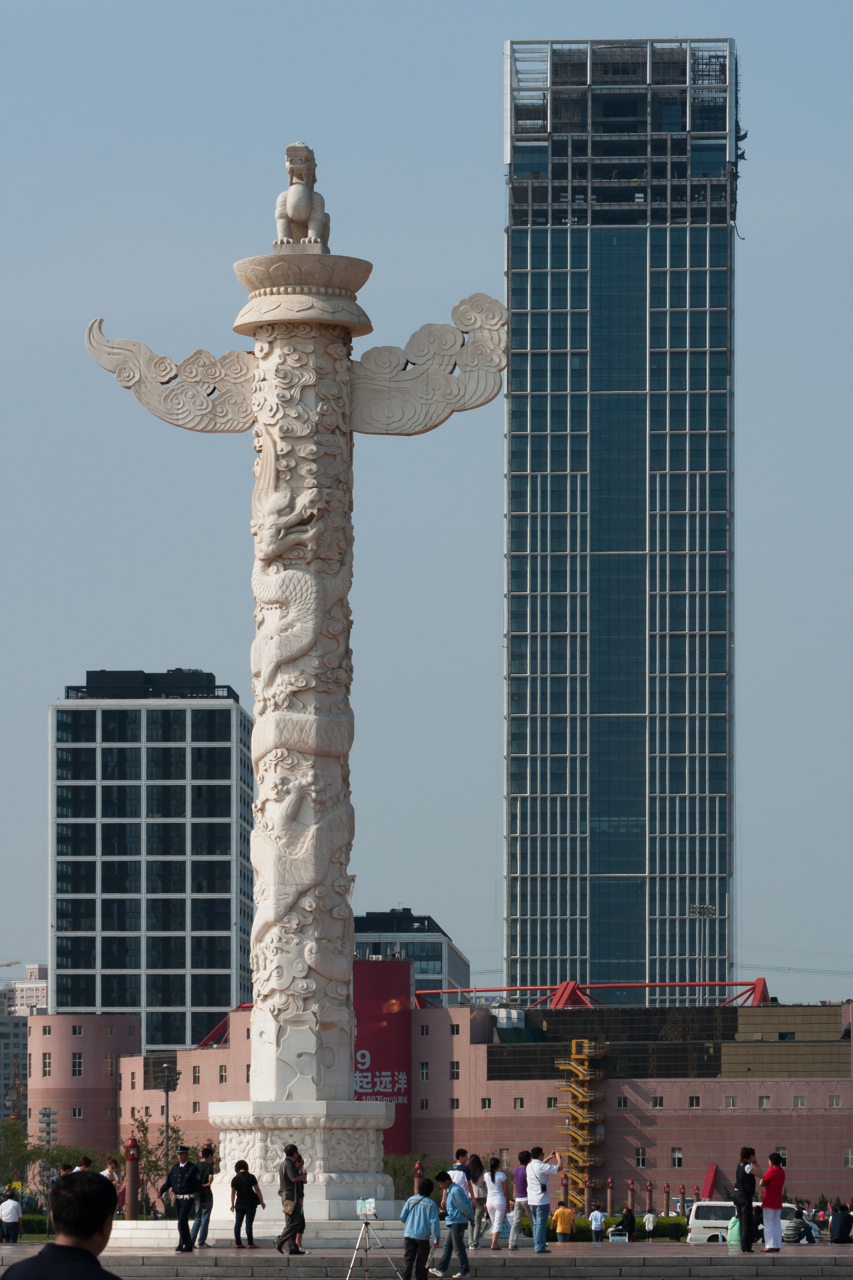 Dalian, Liaoning, China: View over Xinghai Square to Dalian Xinghai World Expo Center